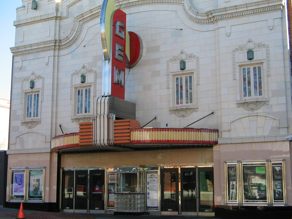 Historical Theater, Kansas City, Missouri